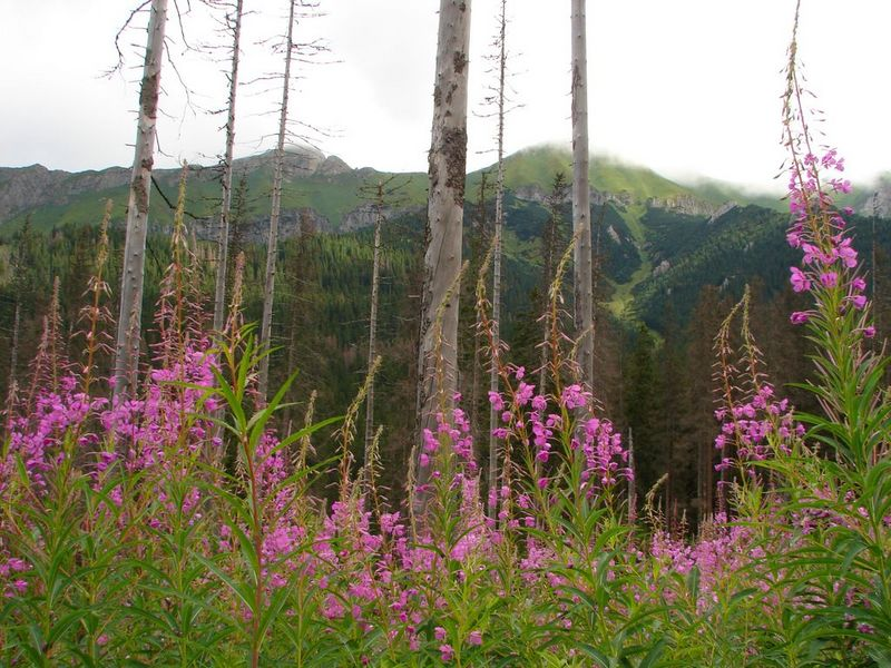 Belianske Tatry